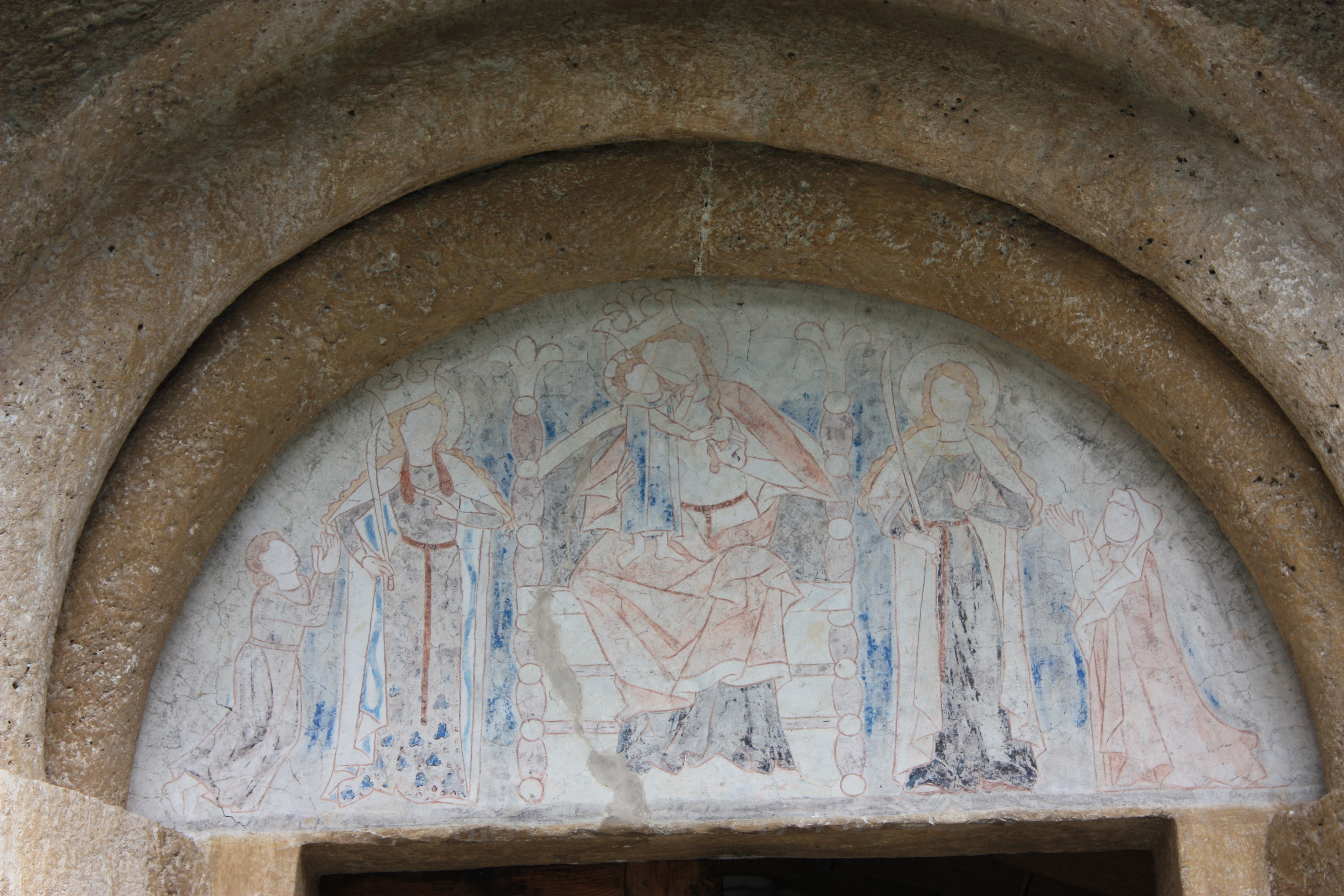 Parish church: Tympanon Locality: Berg im Drautal Community:Berg im Drautal